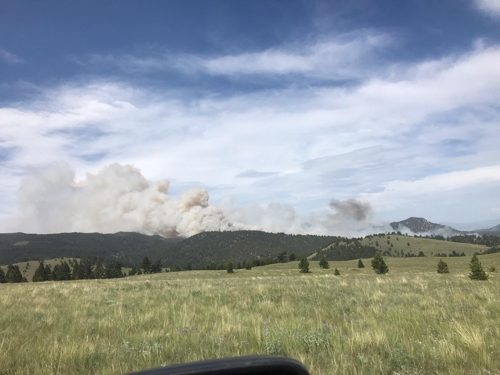 Lump Gulch - Aerial Observation